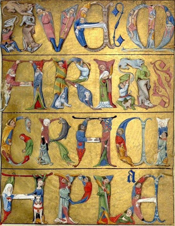 Illuminated human alphabet from the Heures de Charles d'Angoulême